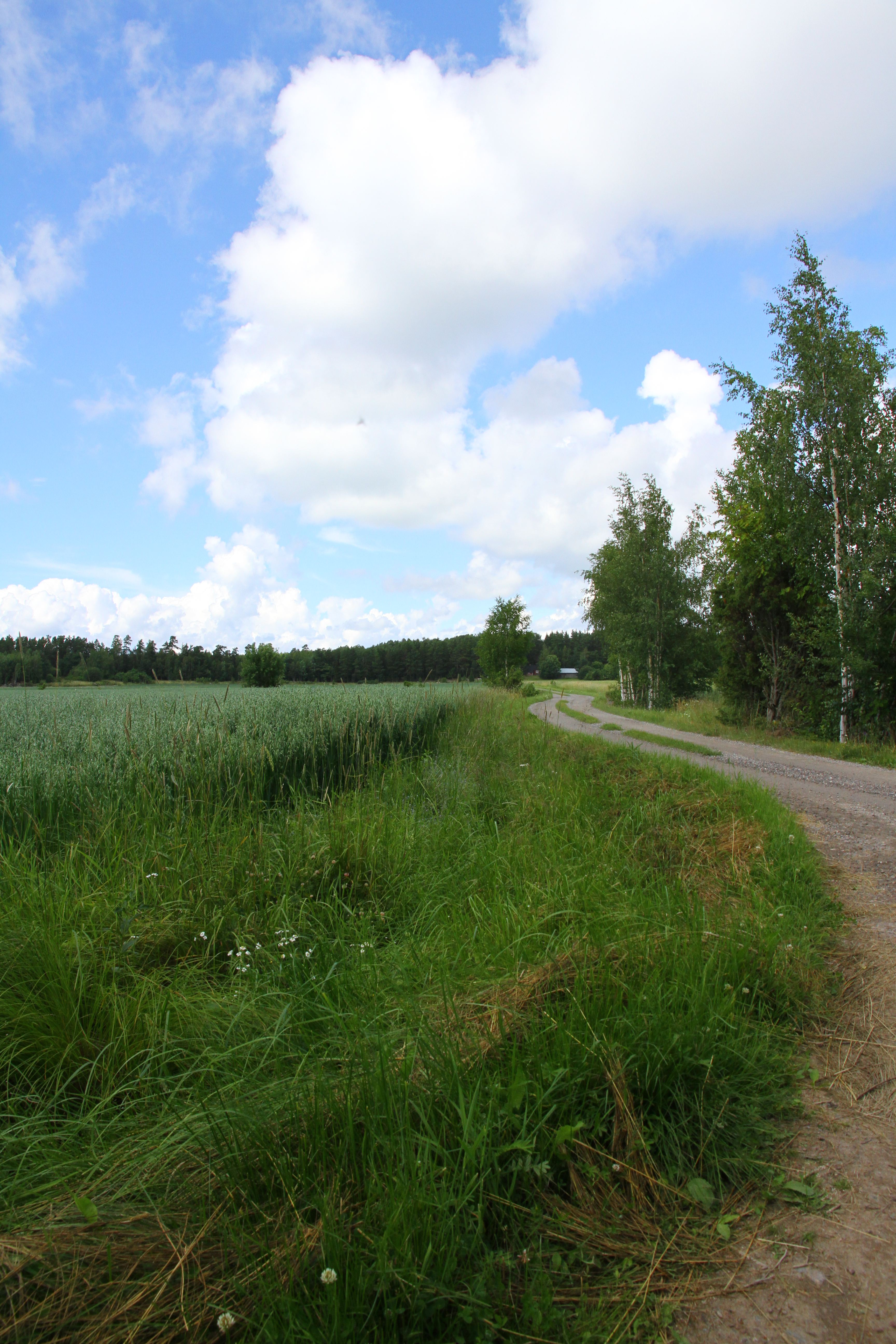 Velkuanmaa is an island in the Archipelago Sea, Naantali Finland.